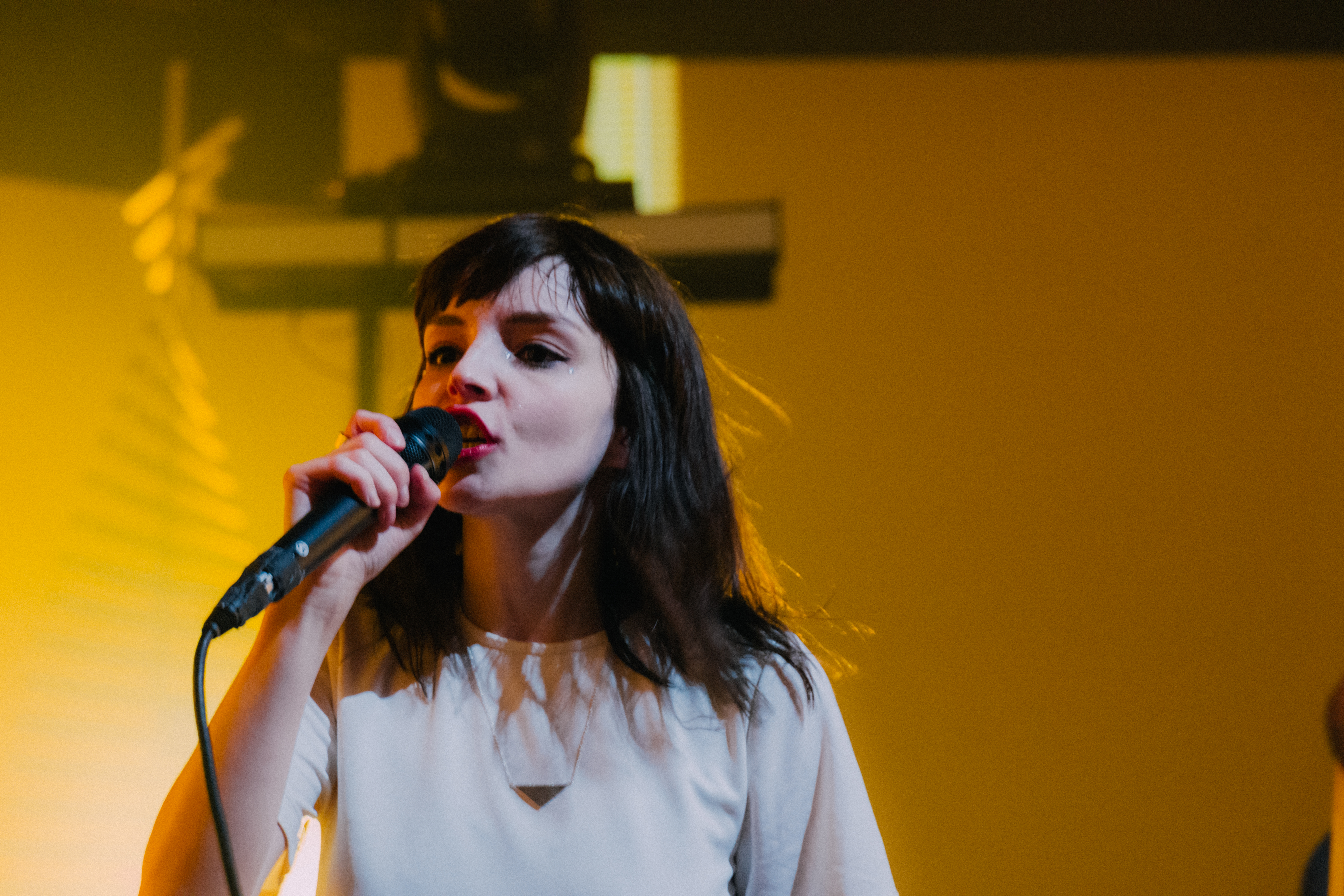 CHVRCHES